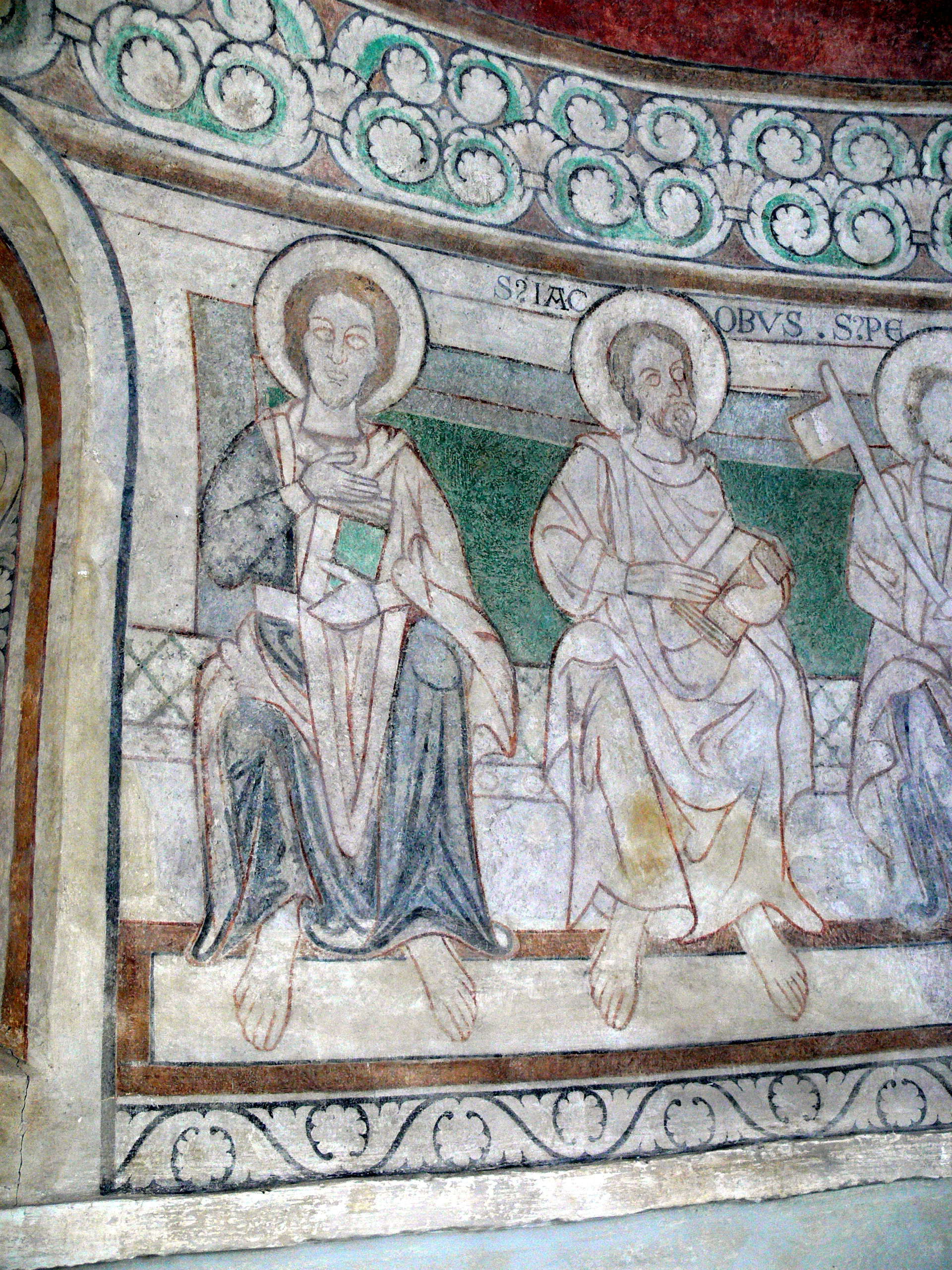 Ballum church. Romanesque frescoes ( 12th century ) of the apostles in the apse